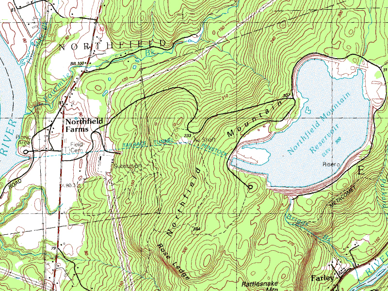 Topographic map of Northfield Mountain Tailrace Tunnel, Millers Falls, Massachusetts.